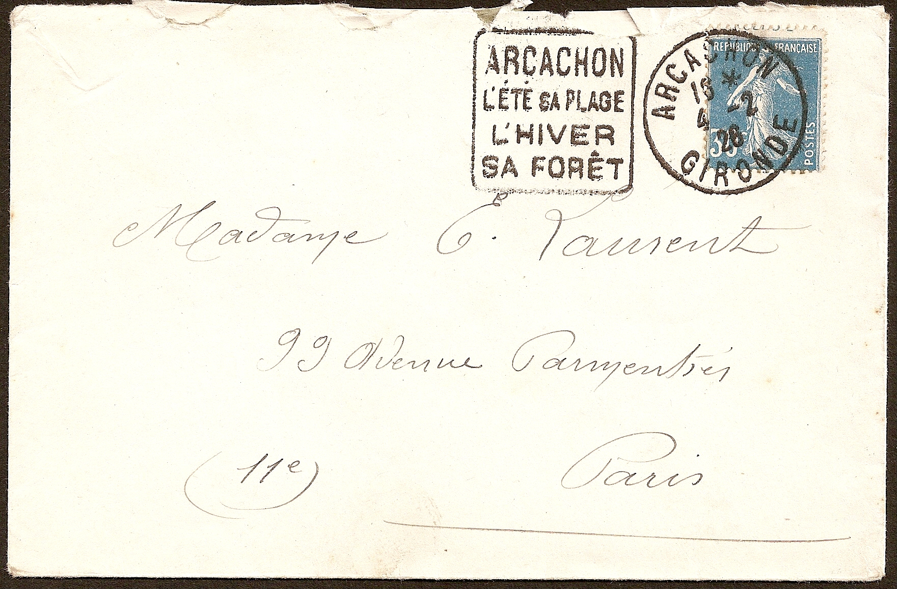 Cover frank with a Semeuse stamp and cancelled by a machine Daguin. The commercial text says : "Arcachon / in summer its beach / in winter its forest".